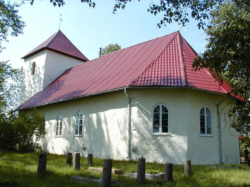 Saka church